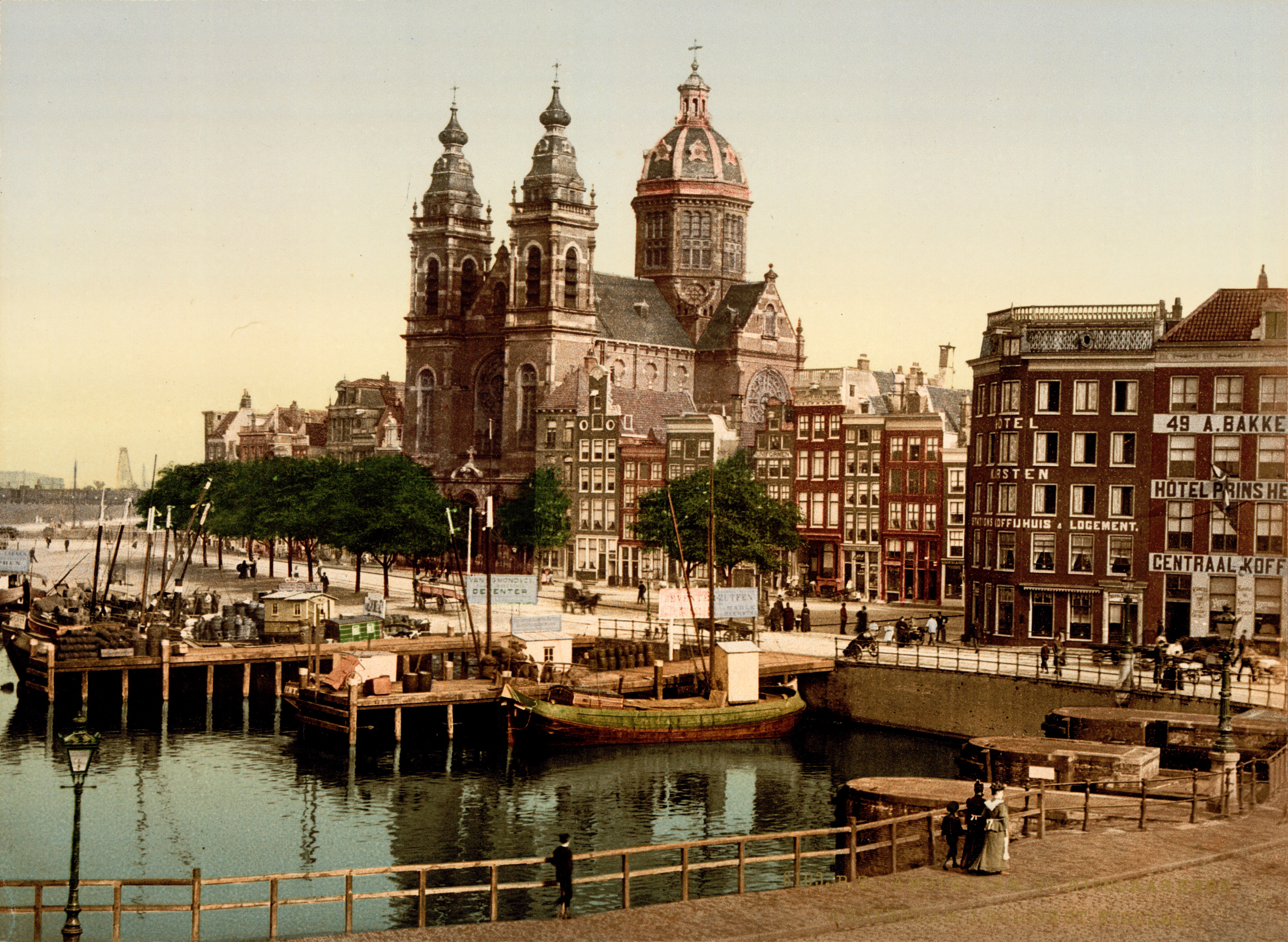 Photochrom print by Photoglob Zürich, between 1890 and 1900. From the Photochrom Prints Collection at the Library of Congress More photochroms from the Netherlands | More photochrom prints [PD] This picture is in the public domain